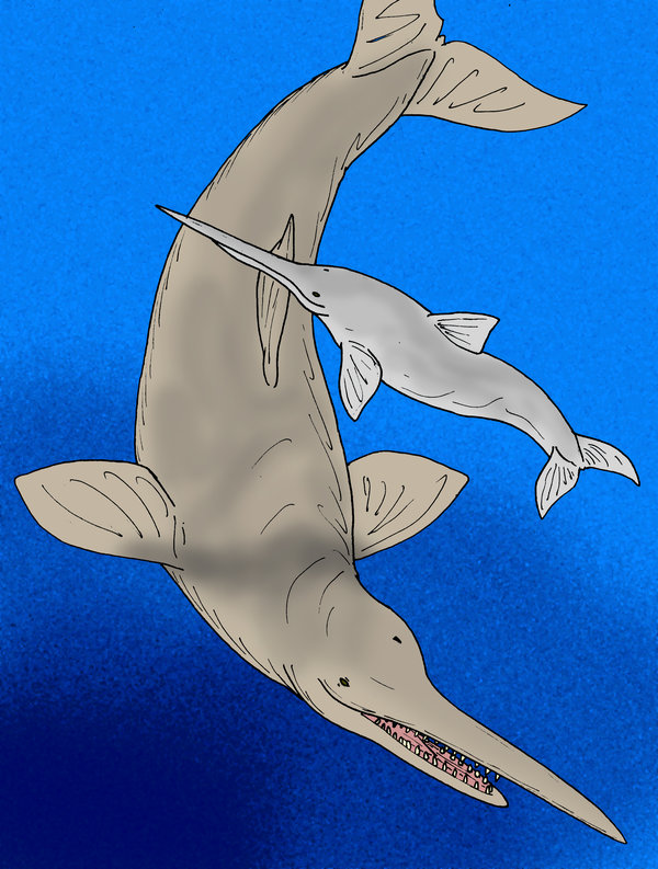 Reconstructions of the Miocene toothed whales Macrodelphinus kelloggi and Eurhinodelphis bossi from what is now the coast of California. (C) Stanton F. Fink